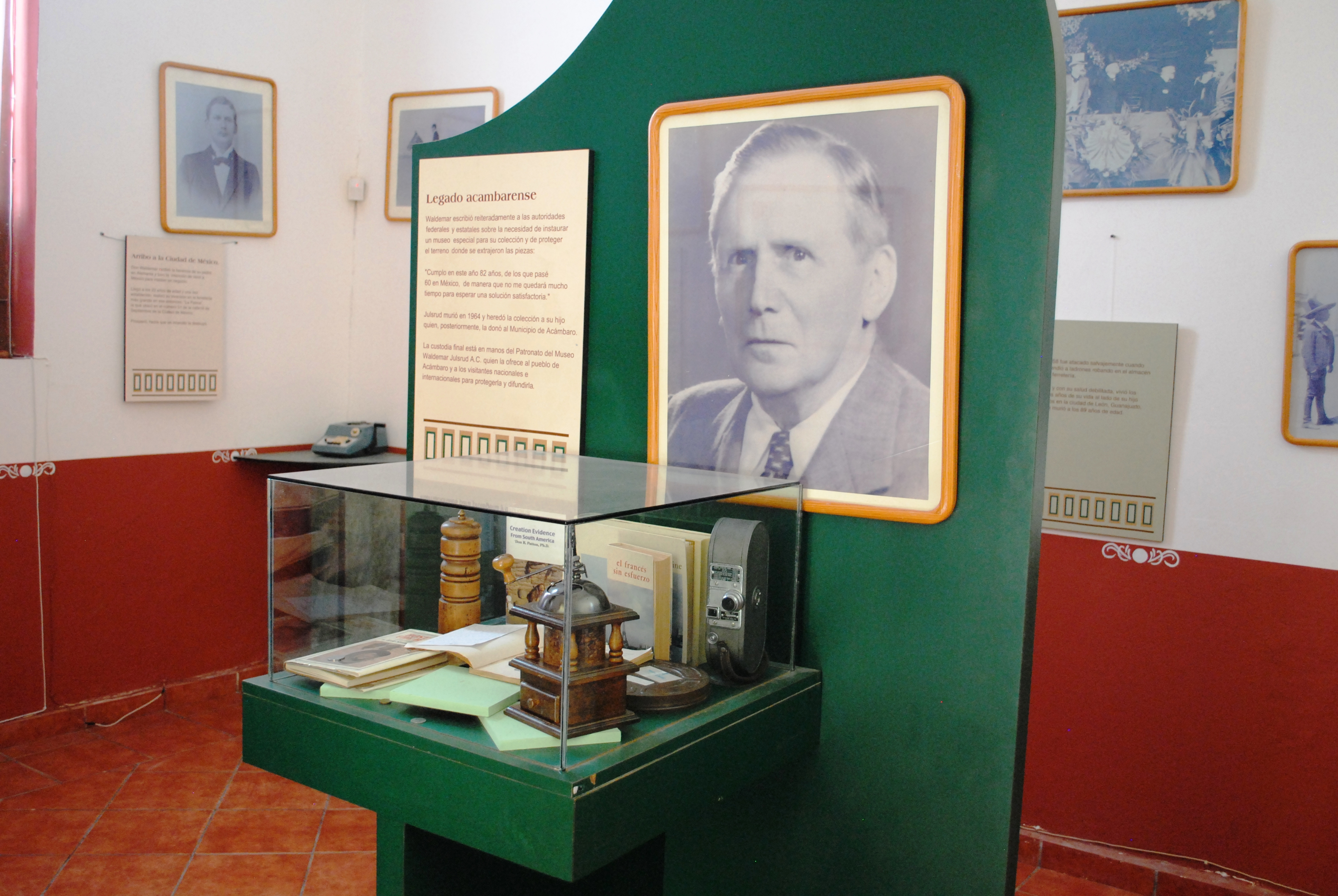 Muzeo Julsrud